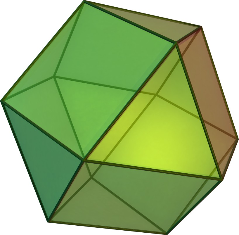 Cuboctahedron, made by User:Cyp using POV-Ray This image was created with POV-Ray